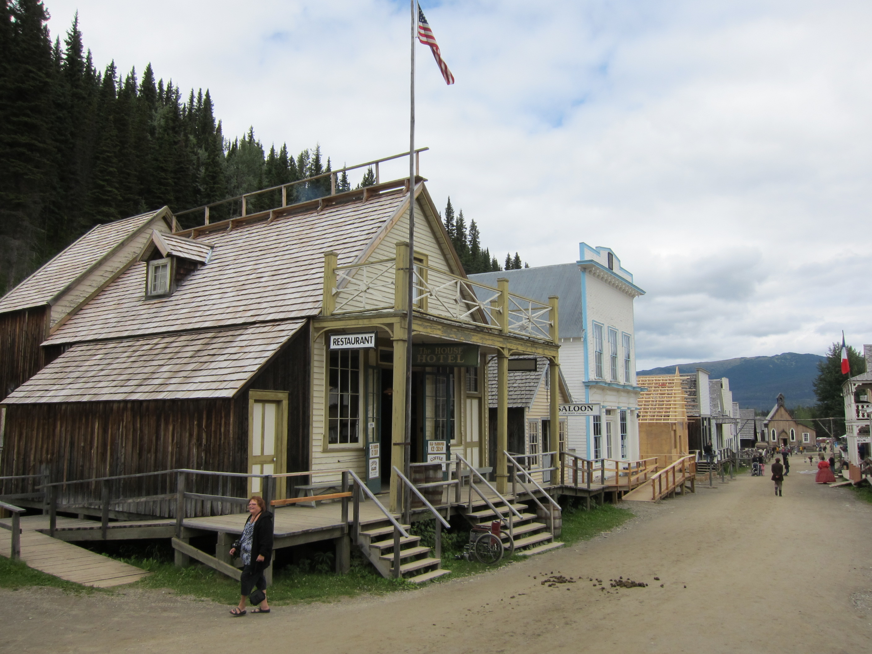 Recently, Barkerville, BC held the Mid-Autumn Moon Festival. 2012 is the 150th anniversary of this historic gold rush town.